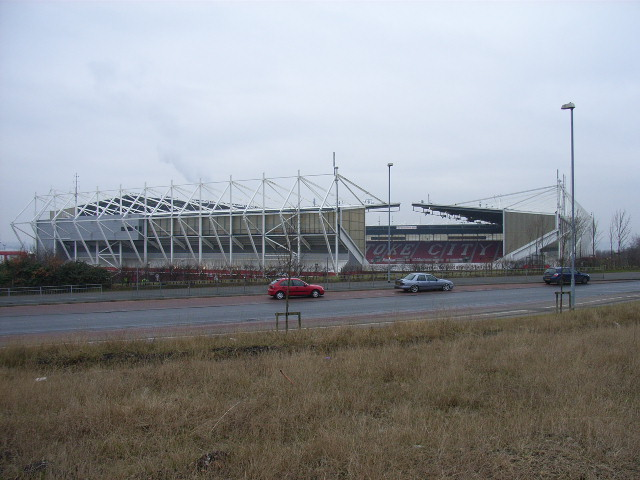 The Britannia Stadium, Stoke